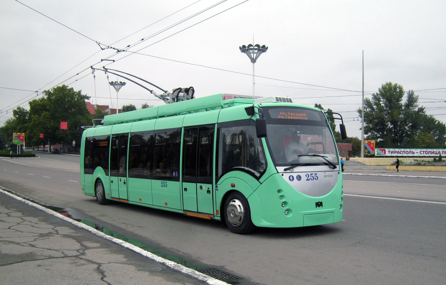 The first AKSM-420 in Tiraspol.